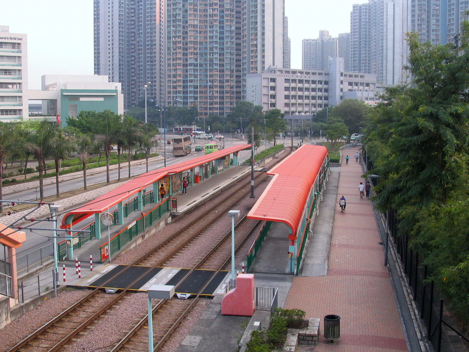 輕鐵 天湖站 Tin Wu Stop, Light Rail